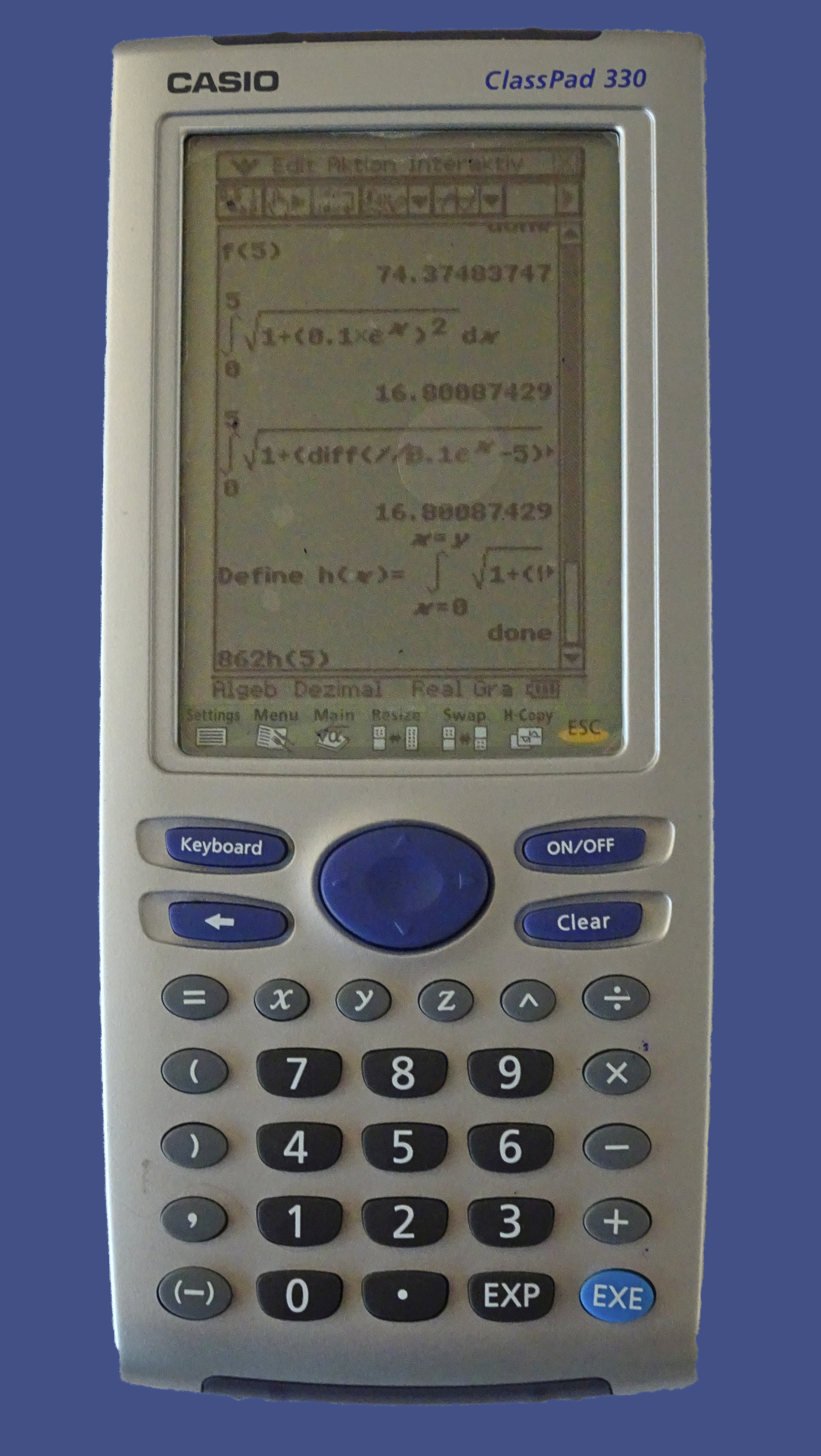 Casio ClassPad 330 Calculator, programmable, with graphic display